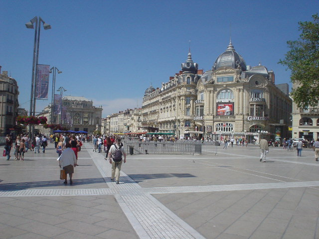 Place De La Comedie, Montpellier.